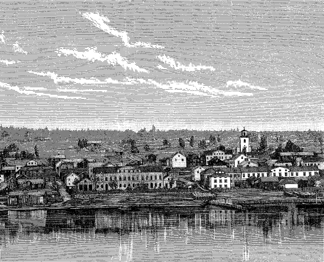 Old photography of Östersund, Sweden.